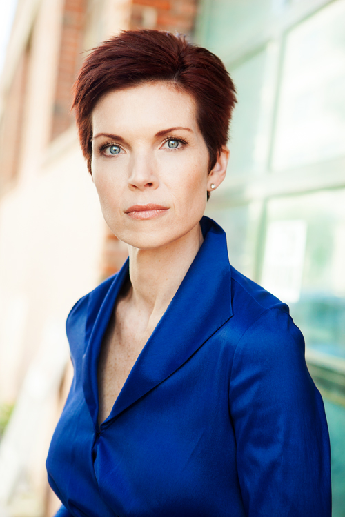 Photograph of Eaddy Mays outdoors with short hair